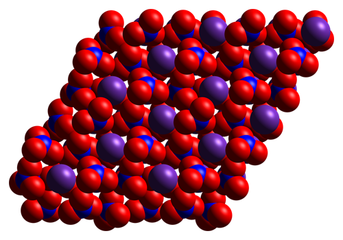 Space-filling model of part of the crystal structure of rubidium nitrate, RbNO3. Colour code: Rubidium, Rb: purple Nitrogen, N: blue Oxygen, O: red Structure by X-ray crystallography from Acta Cryst. B (1992) 48, 160–166. Image generated in CrystalMaker 8.3.